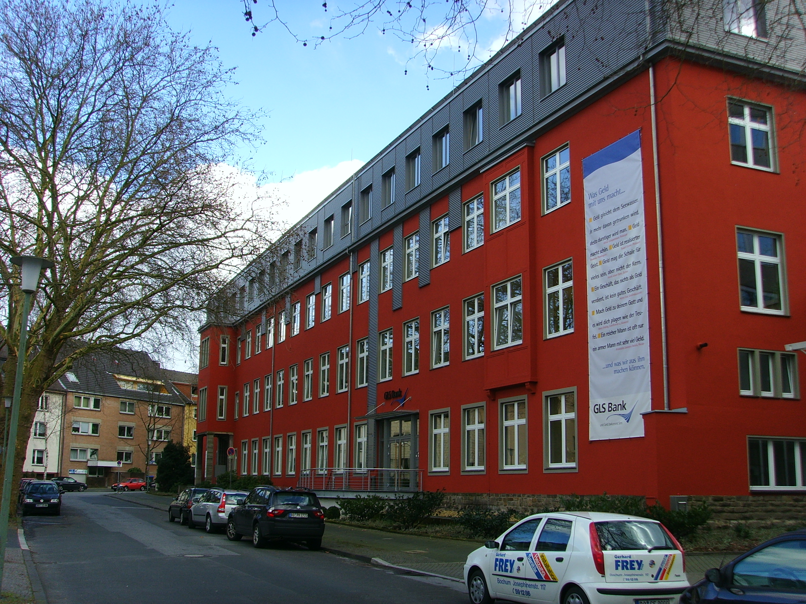 Außenansicht des Hauptsitz der GLS Gemeinschaftsbank eG, Christstr. 9, Bochum. Die GLS Bank war Deutschlands erste Antrophosophische Bank. : The head office of the german GLS Bank in Bochum, Germany. It was the first anthroposophical bank in Germany. Source: own work Date: March 2008, Bochum, Germany Author: Maschinenjunge Licence: GFDL, cc-by 3.0